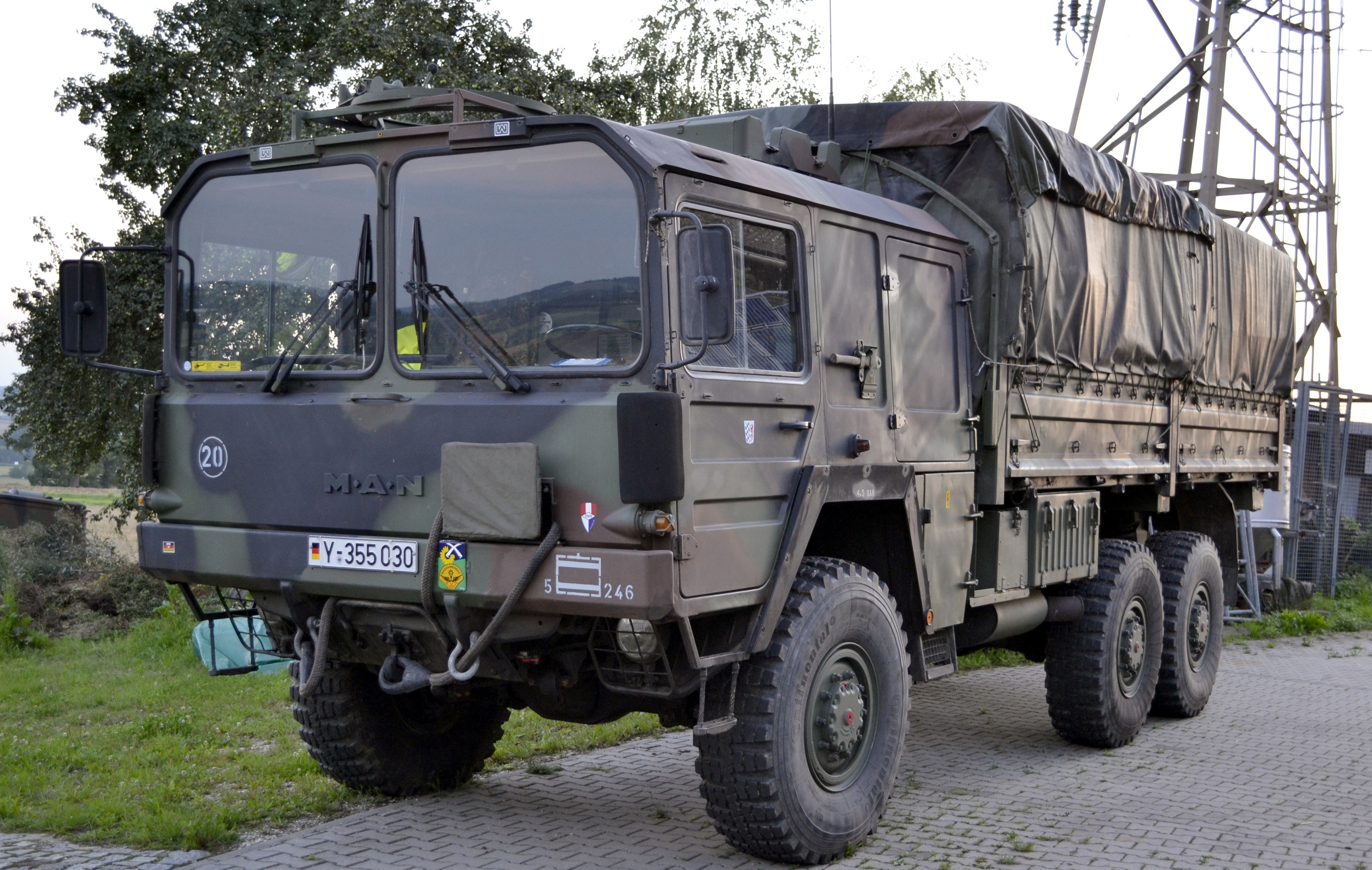 MAN gl (6×6) truck.